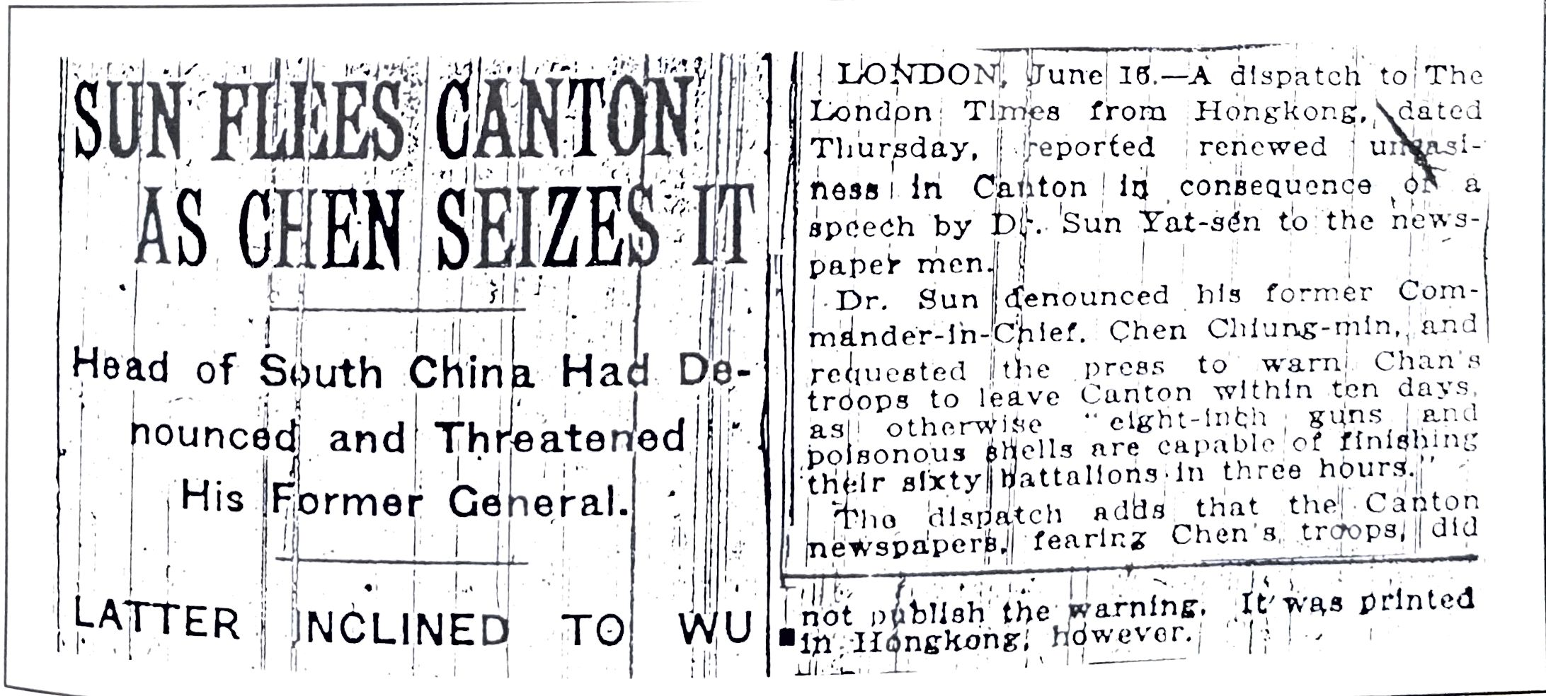 Sun Yat'sen threats of Canton in 1922, reported by New York Times.